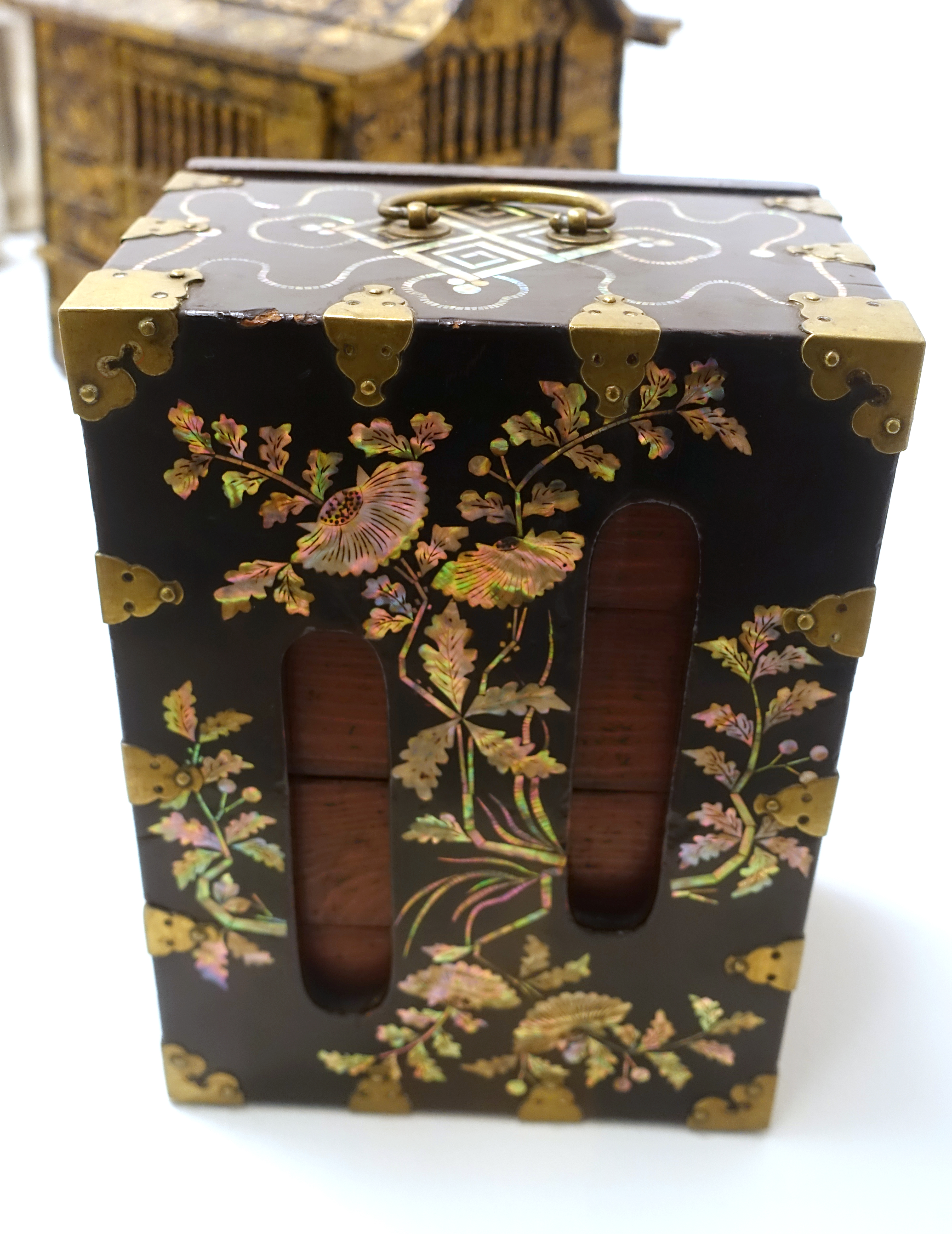 Exhibit in the Linden-Museum - Stuttgart, Germany.